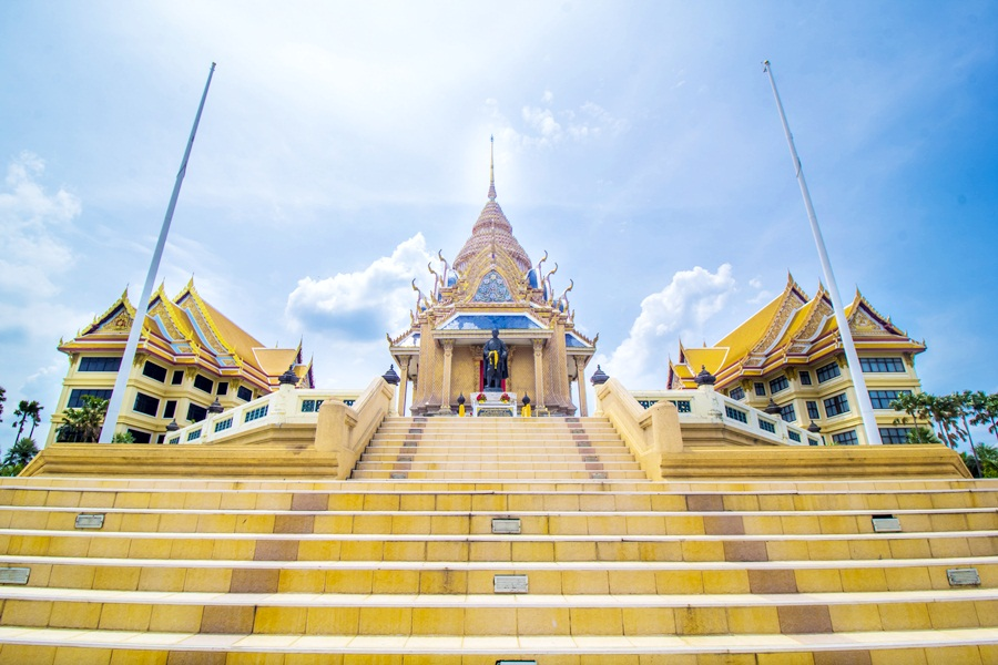 มหาวิทยาลัยมหาจุฬาลงกรณราชวิทยาลัย